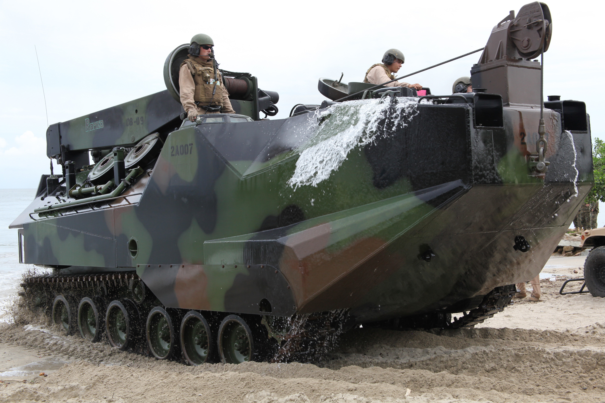 Marines with Company A, 2nd Assault Amphibian Battalion, Ground Combat Element of Special-Purpose Marine Air-Ground Task Force, Continuing Promise 2010, maneuver an amphibious assault vehicle onto a beach in Covenas, Colombia, Aug. 10, 2010, in preparation for subject matter expert exchanges with Colombian Marines. The mission of CP10 is to conduct civil-military operations including subject matter expert exchanges, humanitarian civic assistance and disaster relief to partner nations to the Caribbean, Central and South America. (Marine Corps photo by Cpl. Alicia R. Giron)